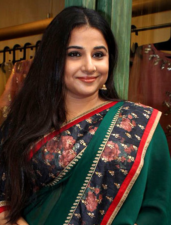 Vidya Balan promoting Tumhari Sulu in 2017